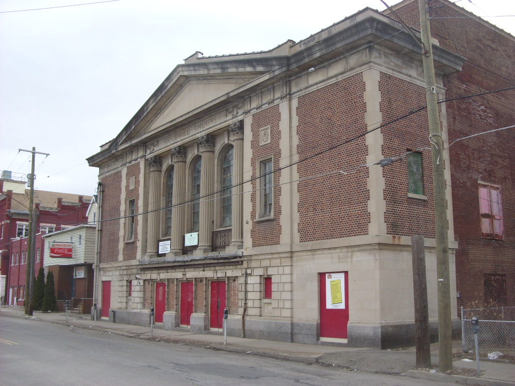 Goodwill Theatre — a cinema in Johnson City, Broome County, New York. Built in 1920, in the Neoclassical style. 021609 166